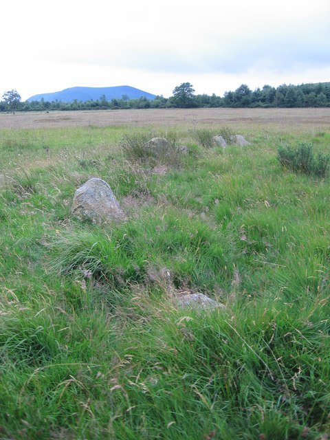 Hoarstones stone circle with Corndon Hill in the background. Hoarstones stone circle has almost sunk without trace into the boggy ground over the past 2-3,000 years. It is said that the stones are quite tall but only the very tops of them are now visible poking through into the meadow grass.